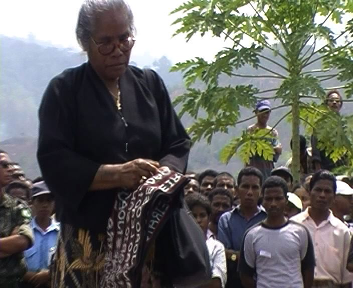 Tia Veronica Pereira at the ninth Anniversary of the Santa Cruz Massacre